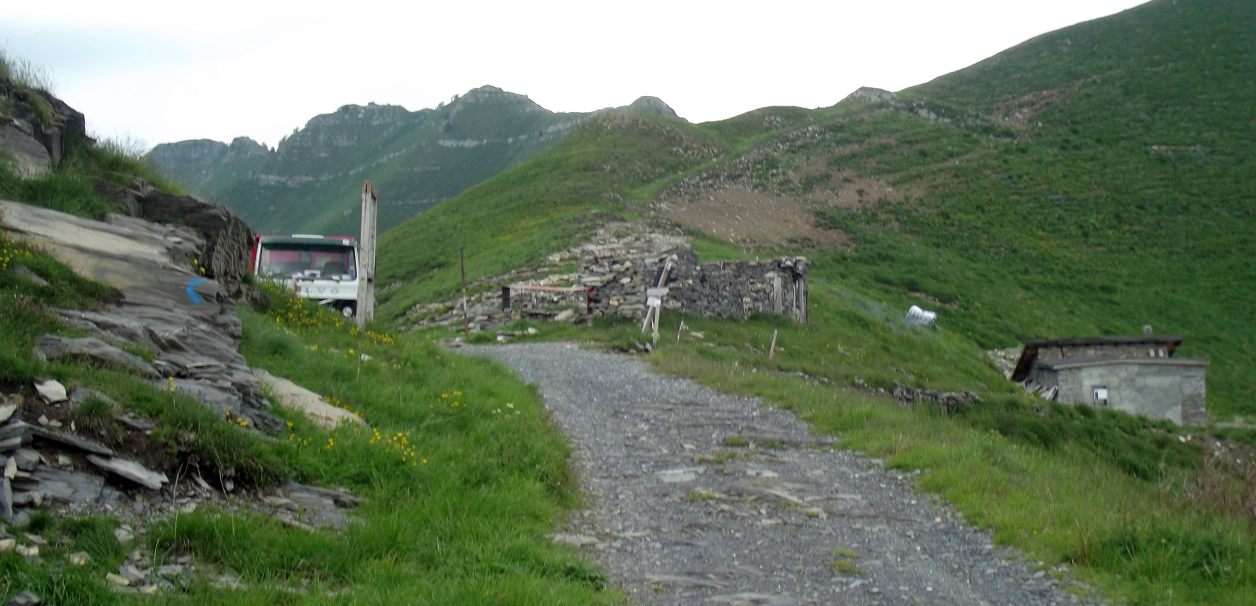 Passo Tanarello from ita Italia side (Ligurian Alps)